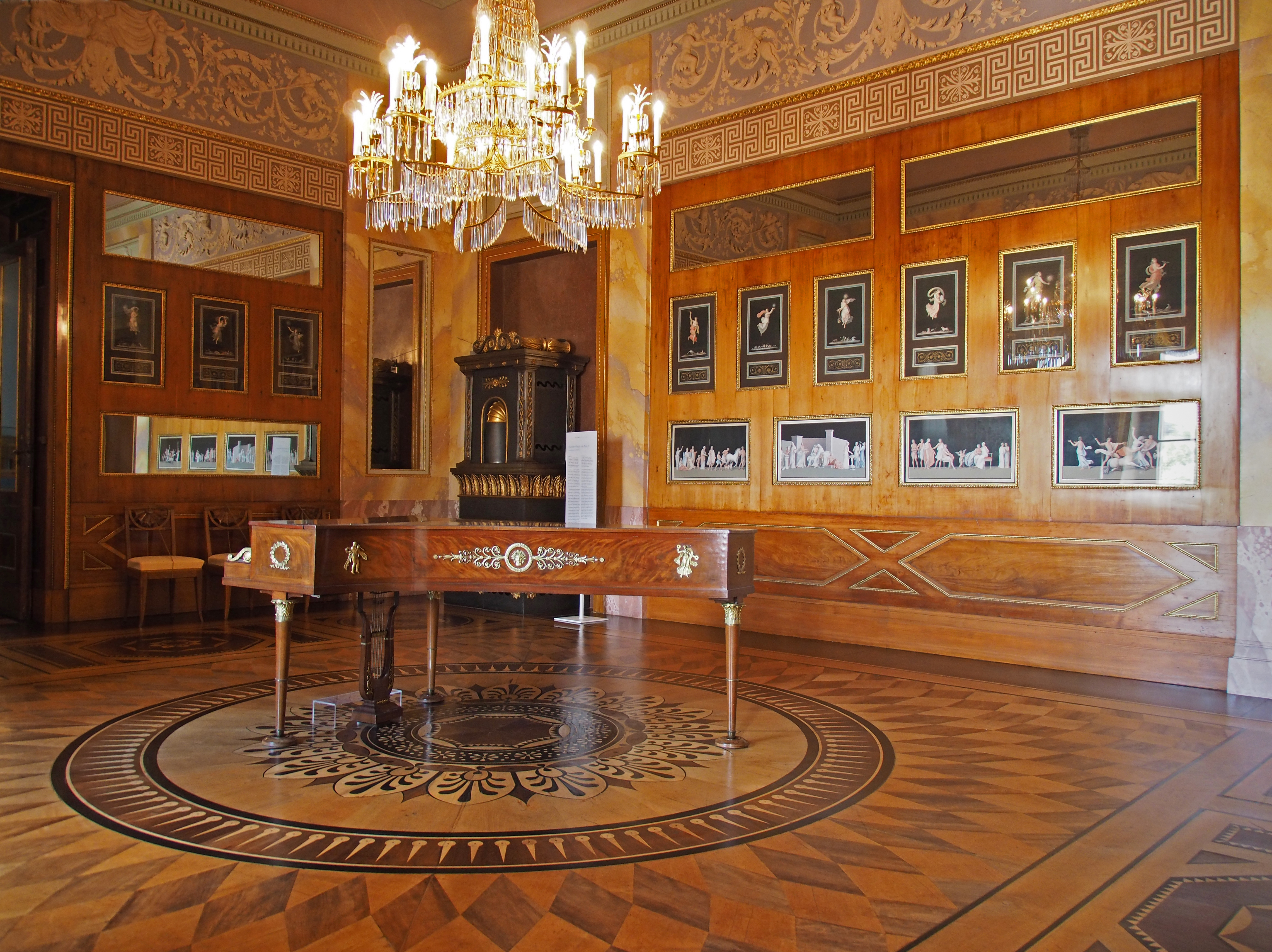 Maria Pawlowna's salon